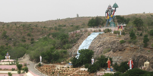 Hill in Prashanthi Nilayam with statues of Hanuman, Krishna, Shirdi Sai Baba, Shiva, Buddha, Christ, Zarathustra. Ashram Sathya Sai Baba. Puttaparthi. India